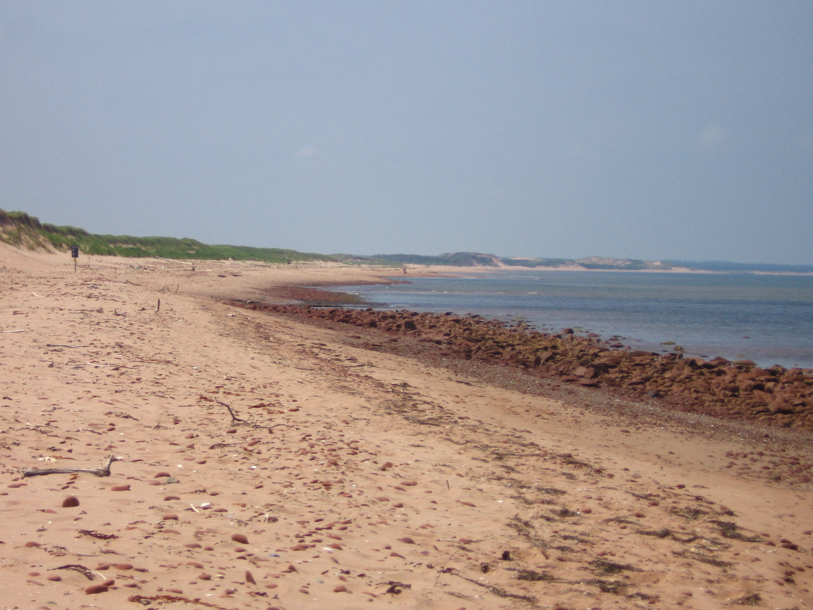 Blooming Point Beach is on the northern shores of Prince Edward Island, has miles of wonderful sandy shoreline.